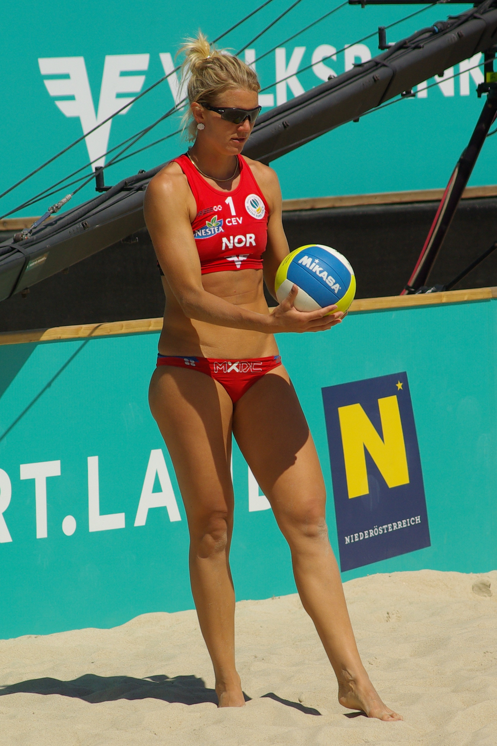 Norwegian Beach volleyball player Kathrine Maaseide at the European Championship Tour 2008 Austrian Masters in St. Pölten.